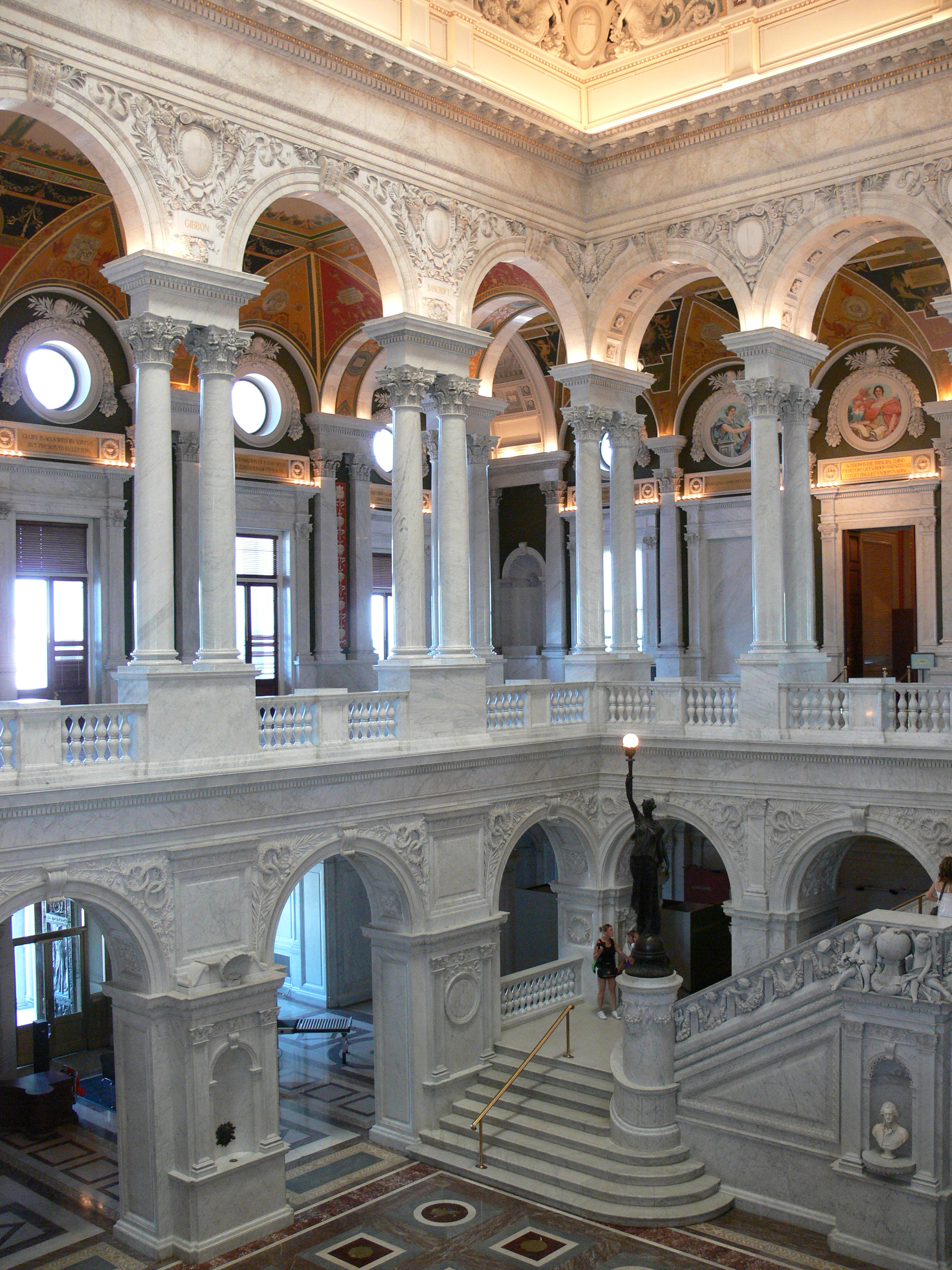 Great Hall, Library of Congress (Jefferson Building), Washington, D.C.